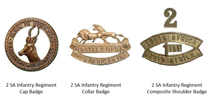 Union Defence Force 2 SA Infantry Regiment Insignia